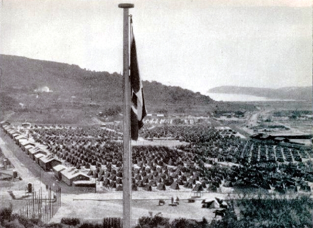 View of the Rab Concentration Camp, with the open-air tents for the inmates